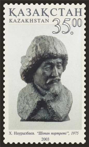 Stamp of Kazakhstan